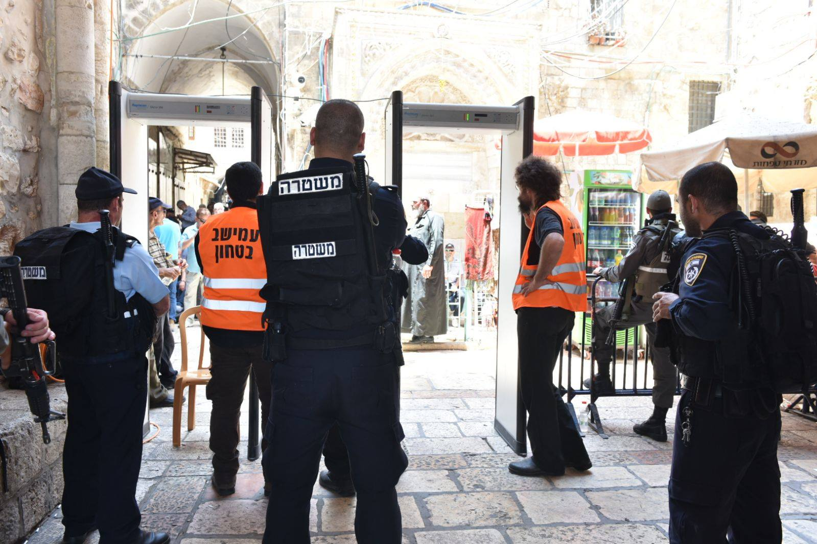 Israeli Police installs metal detectors in Temple Mount entrance